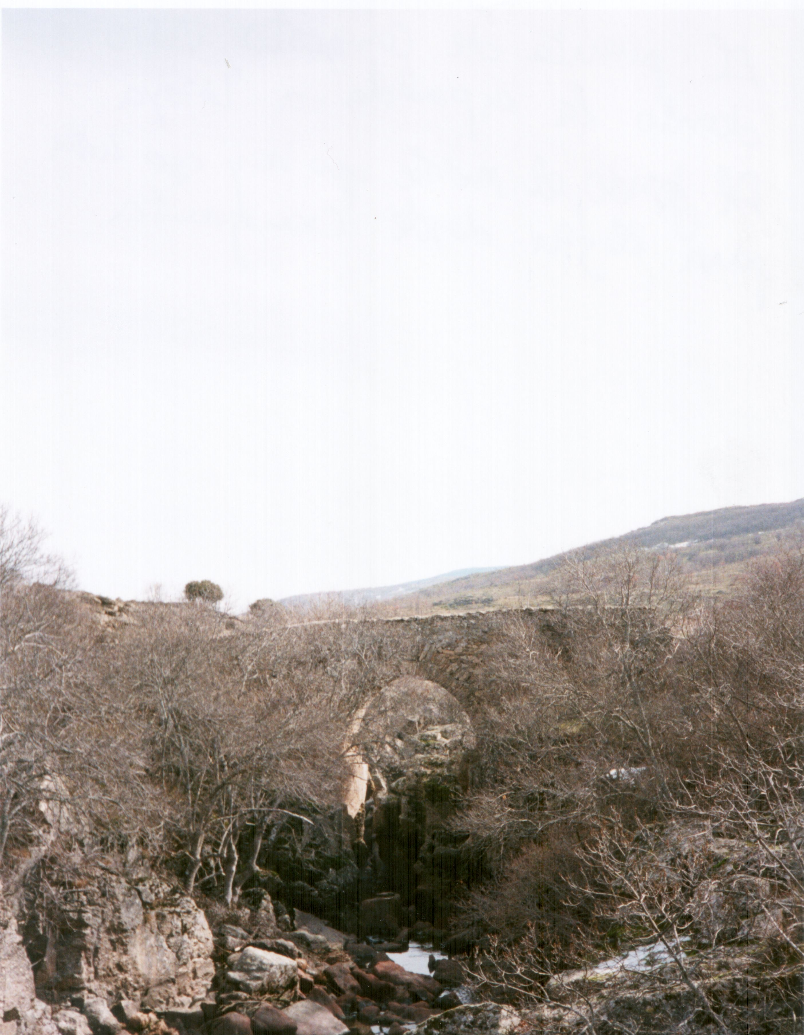 Bridge of Congosto, Lozoya, Madrid (Spain), XII century.